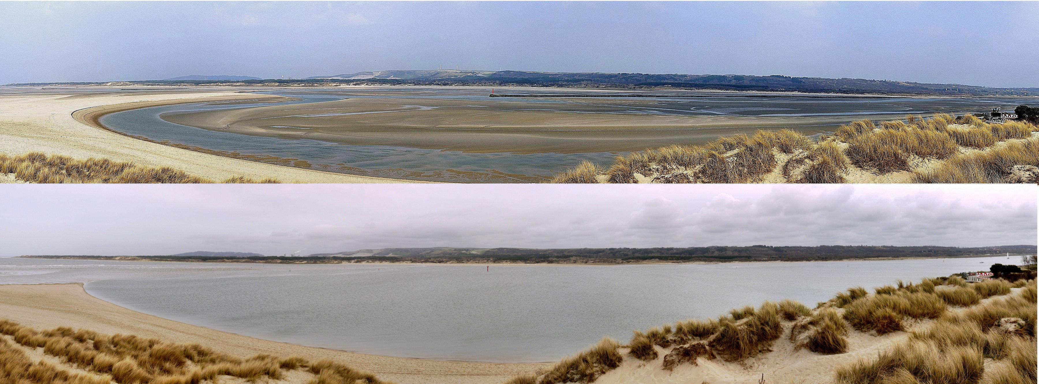 Low and High Tide at river Canche entering English Channel close at Le Touquet Paris Plage in France